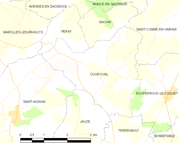 Map of French municipality